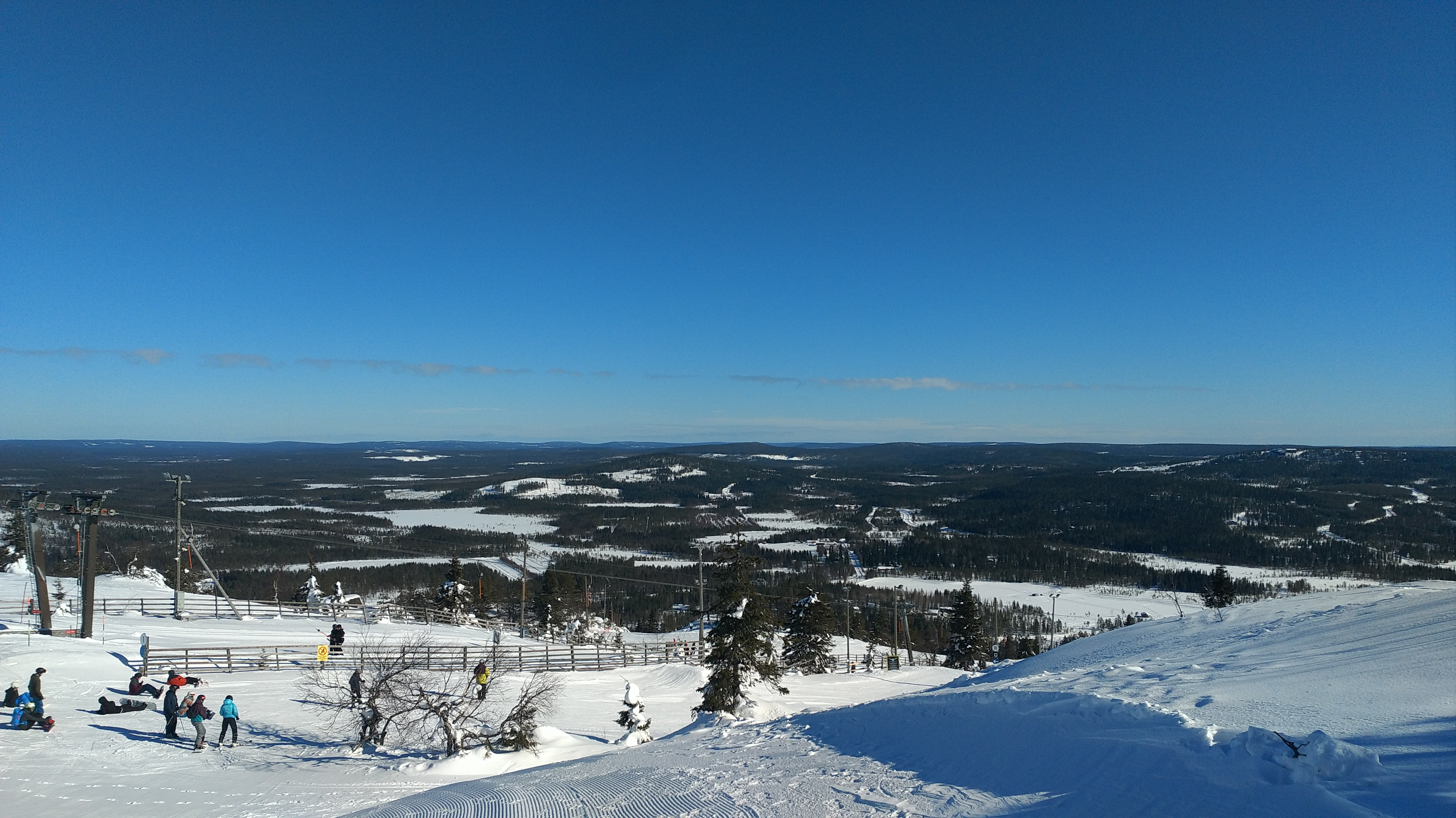 The Iso-Syöte ski resort in Pudasjärvi, Finland, seen from the top of the Iso-Syöte hill towards North-East.